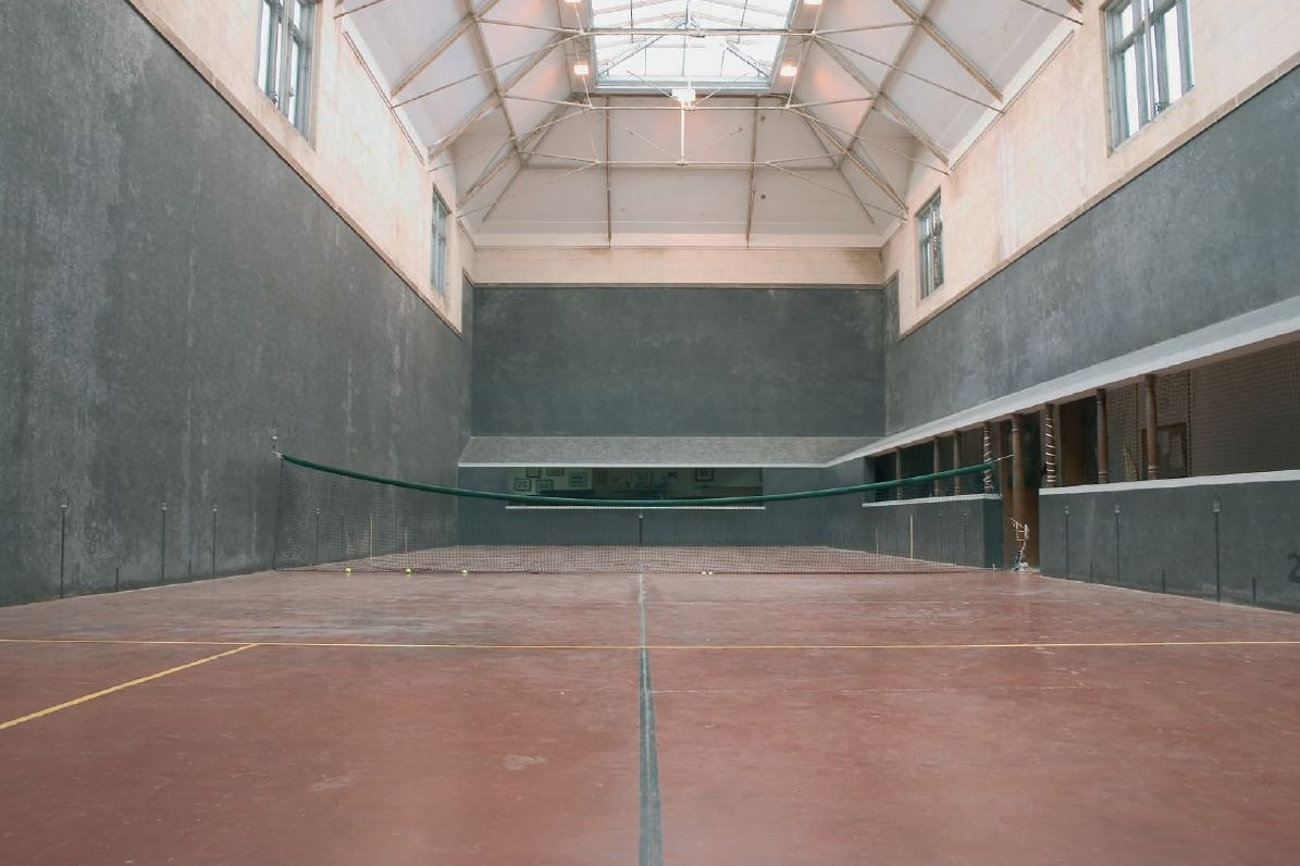 Hardwick House real tennis court in England.